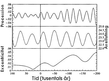 Swedish translation of Orbital_variation.gif